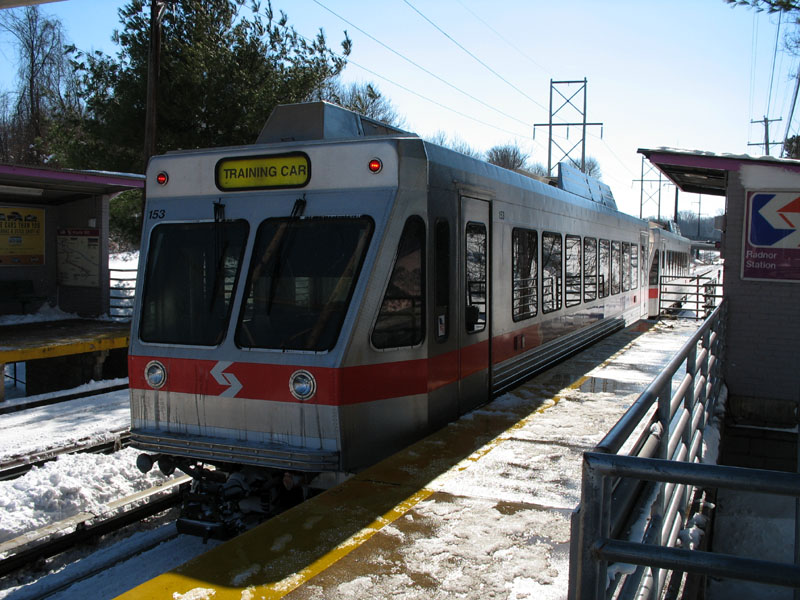 A non-revenue light rail car pulling out of Radnor station on the P&W.